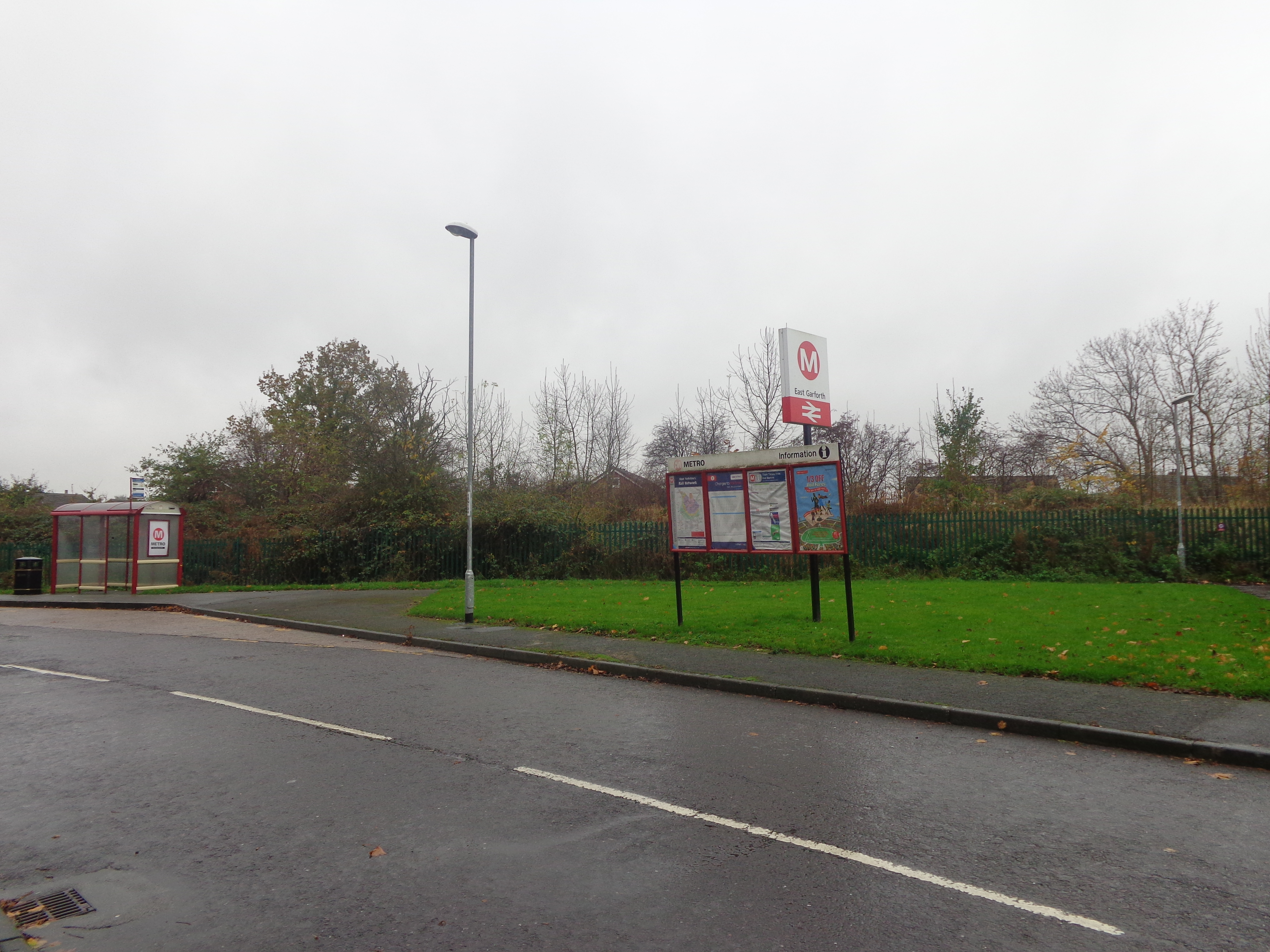 Entrance to East Garforth railway station from New Sturton Lane, Garforth, West Yorkshire. Taken on the afternoon of Saturday the 8th of November 2014.